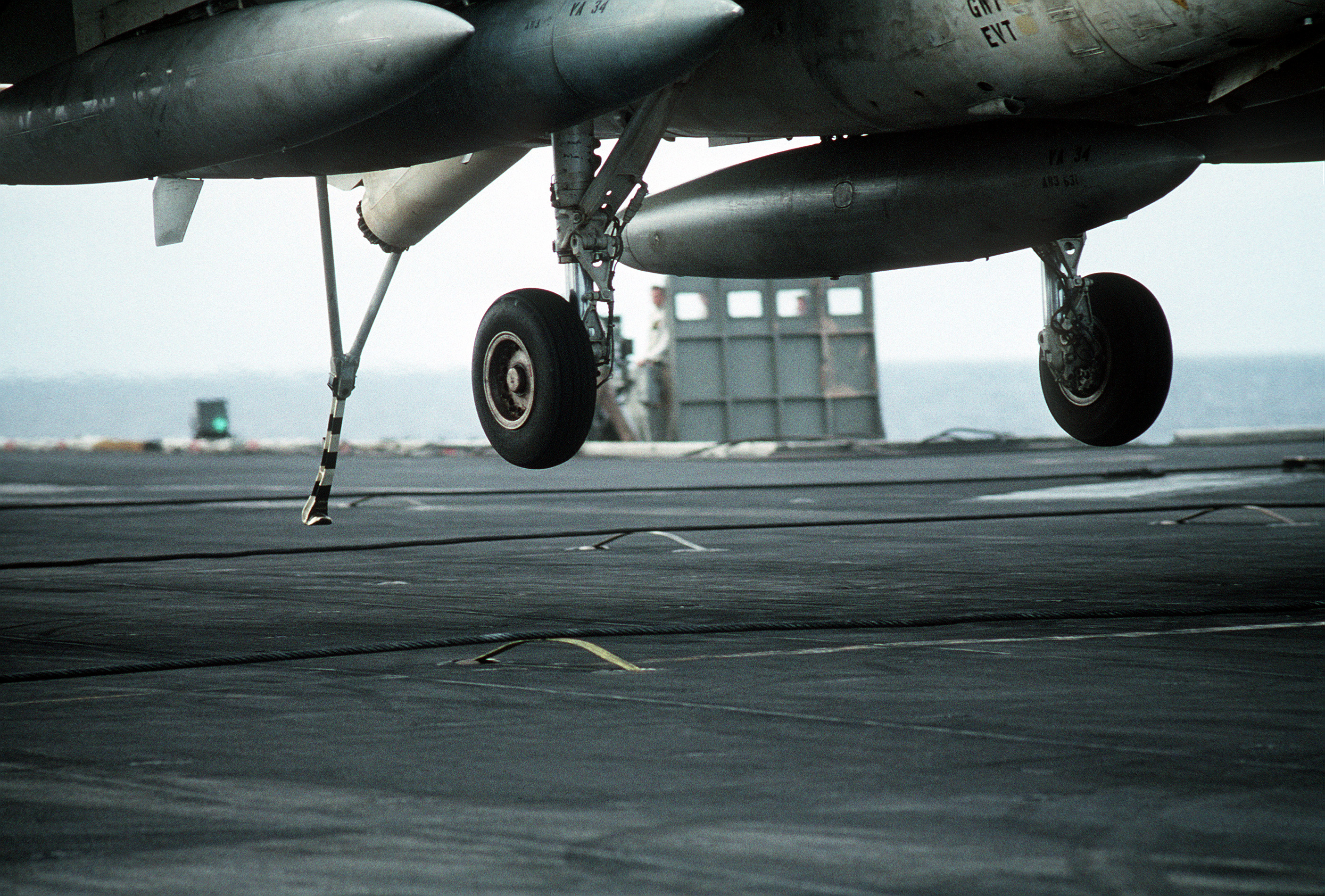 The tailhook of a KA-6D Intruder aircraft of Attack Squadron 34 (VA-34) approaches the arresting cable on the nuclear-powered aircraft carrier USS Dwight D. Eisenhower (CVN-69) during FLEET EX '90.